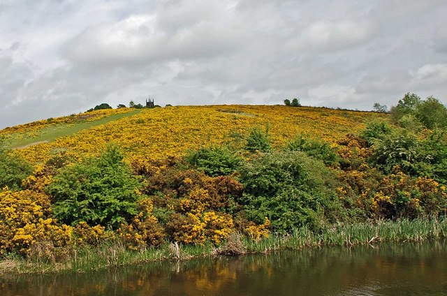 Netherton Hills Gorse in full bloom. View from Dudley No2 Canal.